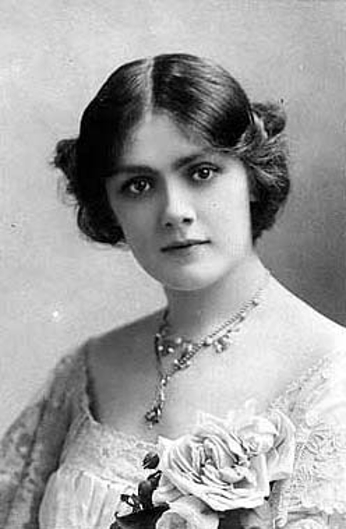 Elizabeth "Lily" Brayton (23 June 1876 – 30 April 1953) was an English actress